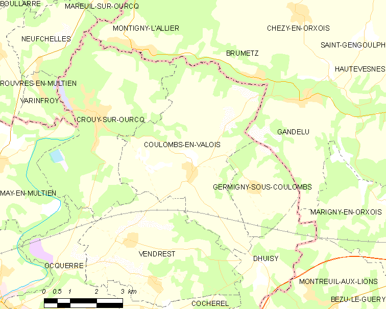 Map of French municipality Coulombs-en-Valois